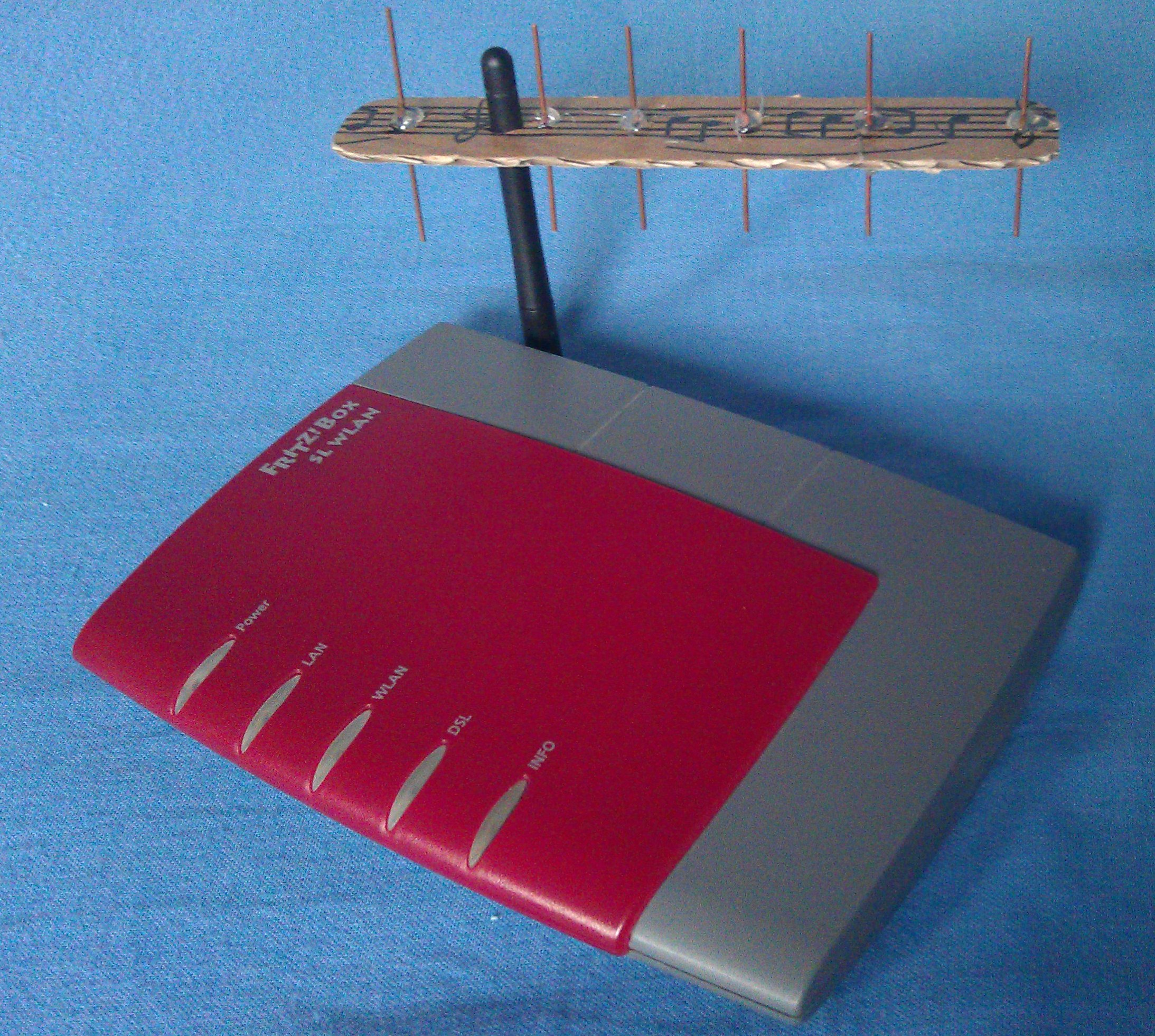 A self assembled Yagi-Uda antenna on a router from AVM, to enhance the range of the Wi-Fi network. Built after a instruction from Bodo Woyde (German).